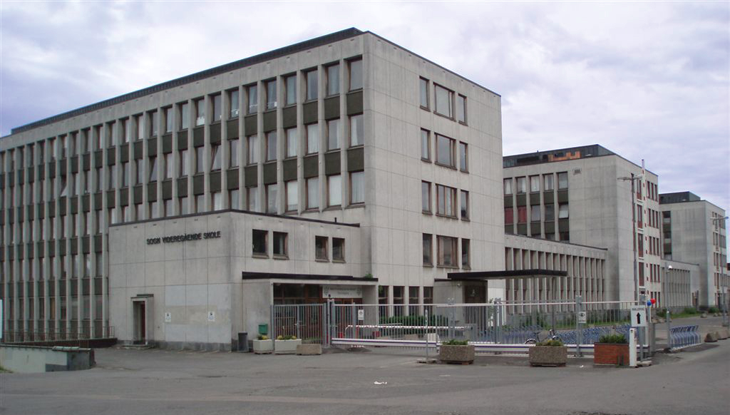 Sogn advanced school in Oslo. Oslo's biggest school with about 2000 users.